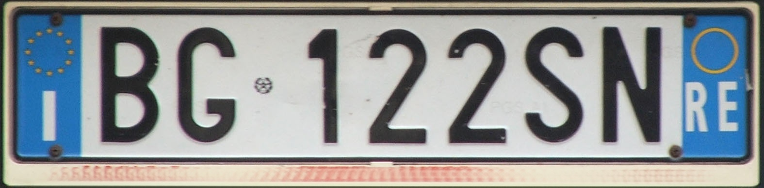 Vehicle licence plate from Italy as seen in 2007.